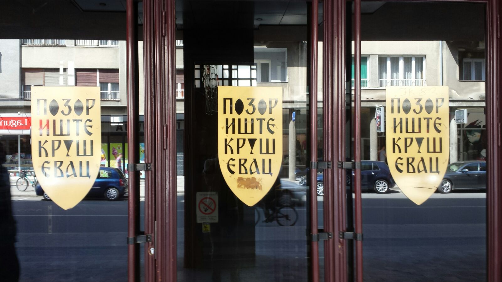 Theatre in Kruševac in Serbia.